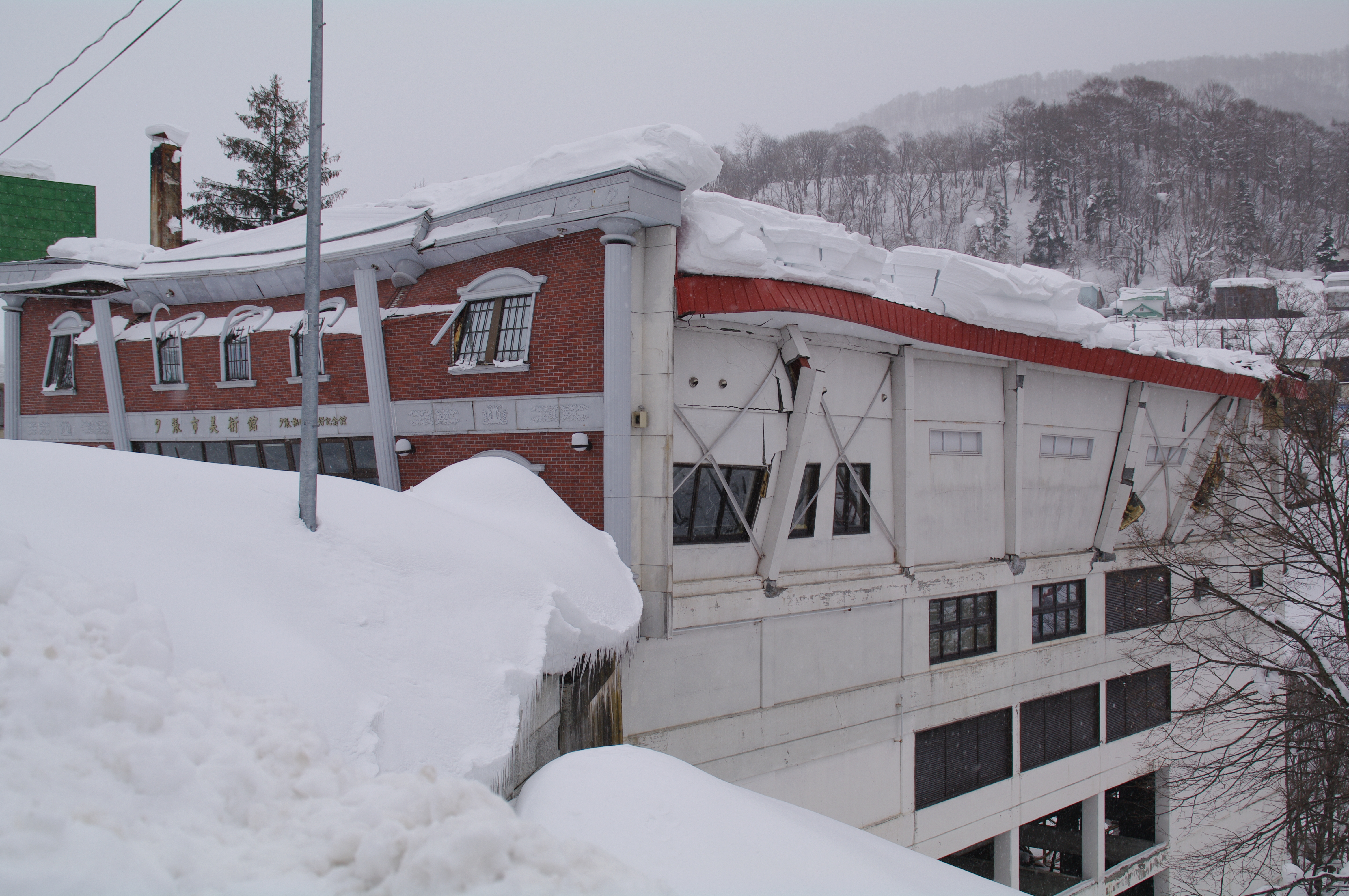 Yubari Municipal Art Museum collapse, Yubari, Hokkaido, Japan